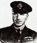 Retrato de William Alcock / Portrait of John William Alcock